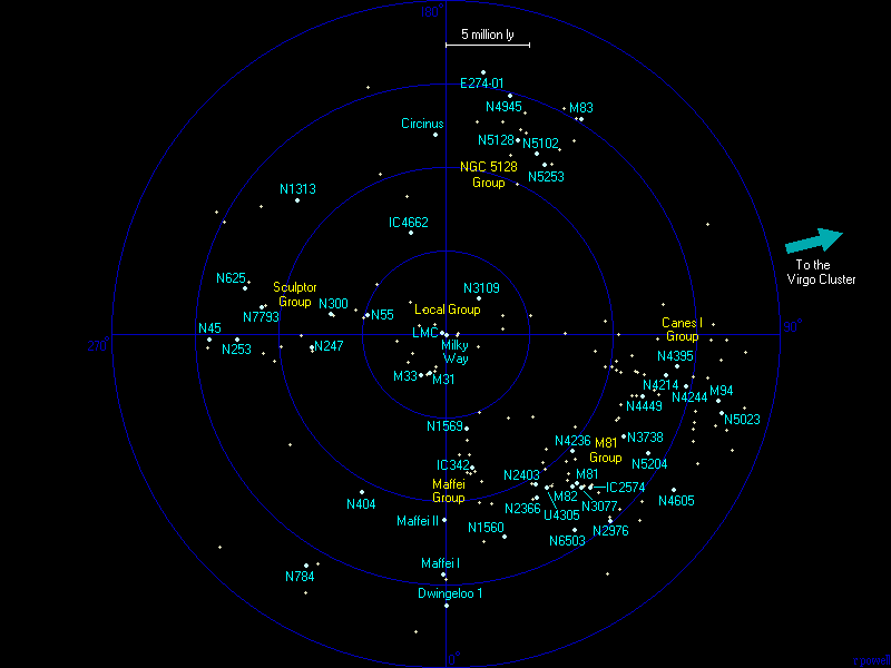 The Nearest Groups of Galaxies